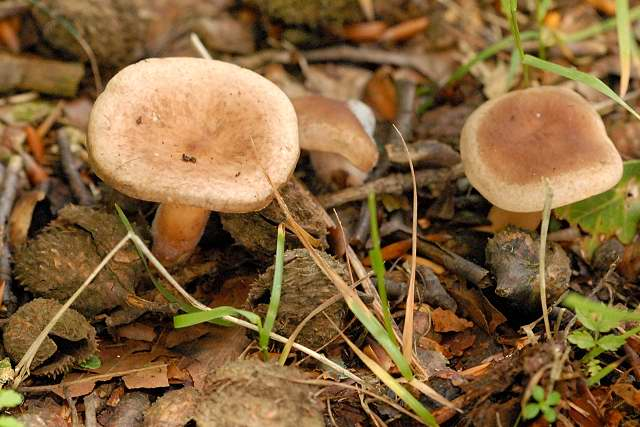 Lactarius spec. from Commanster, Belgian High Ardennes. The determination of the species shown in this picture has been verified.